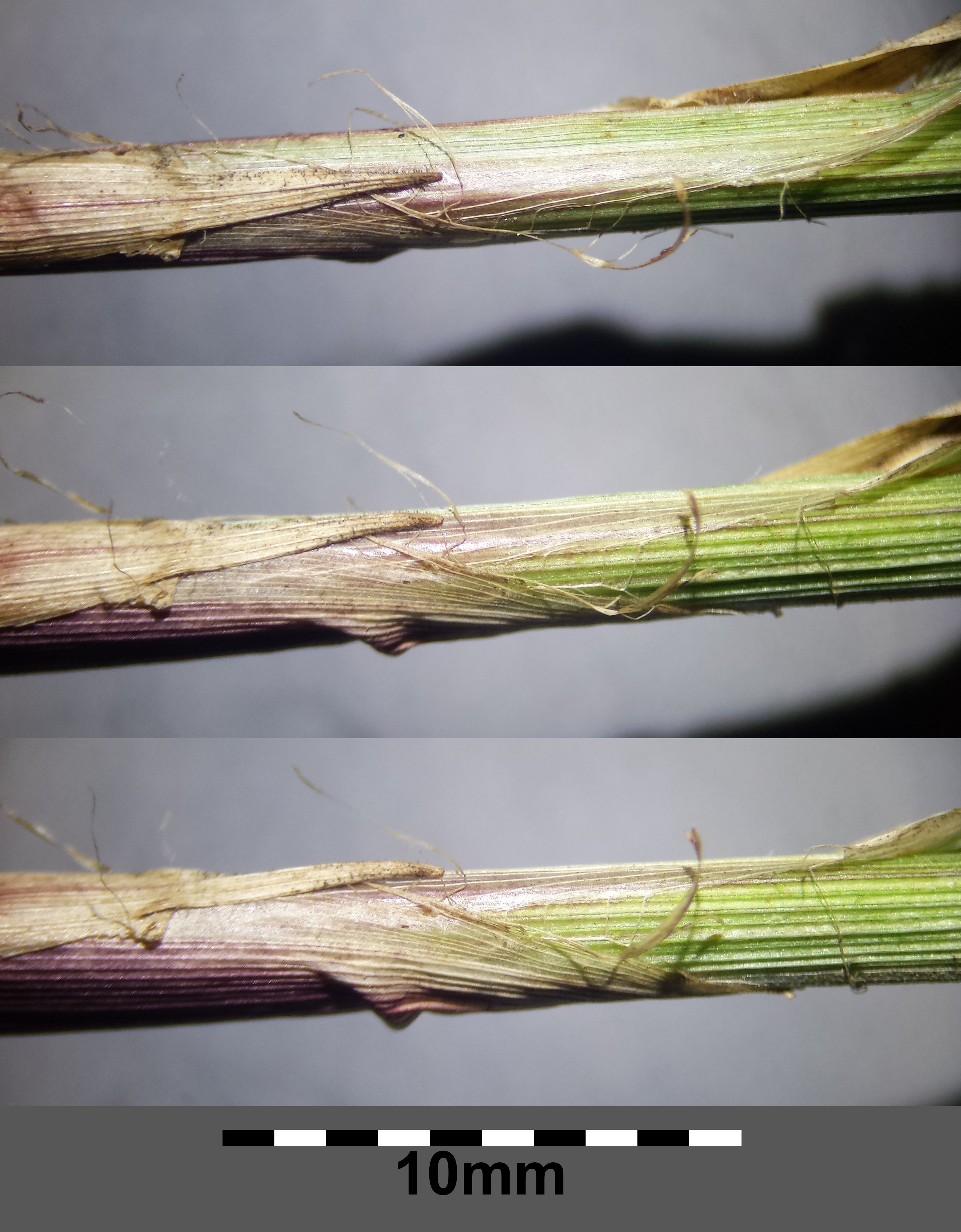 Leaf sheath Taxonym: Carex melanostachya ss Fischer et al. EfÖLS 2008 ISBN 978-3-85474-187-9 Location: Floridsdorf rail station, Vienna-Floridsdorf - ca. 160 m a.s.l. Habitat: area below a pipe